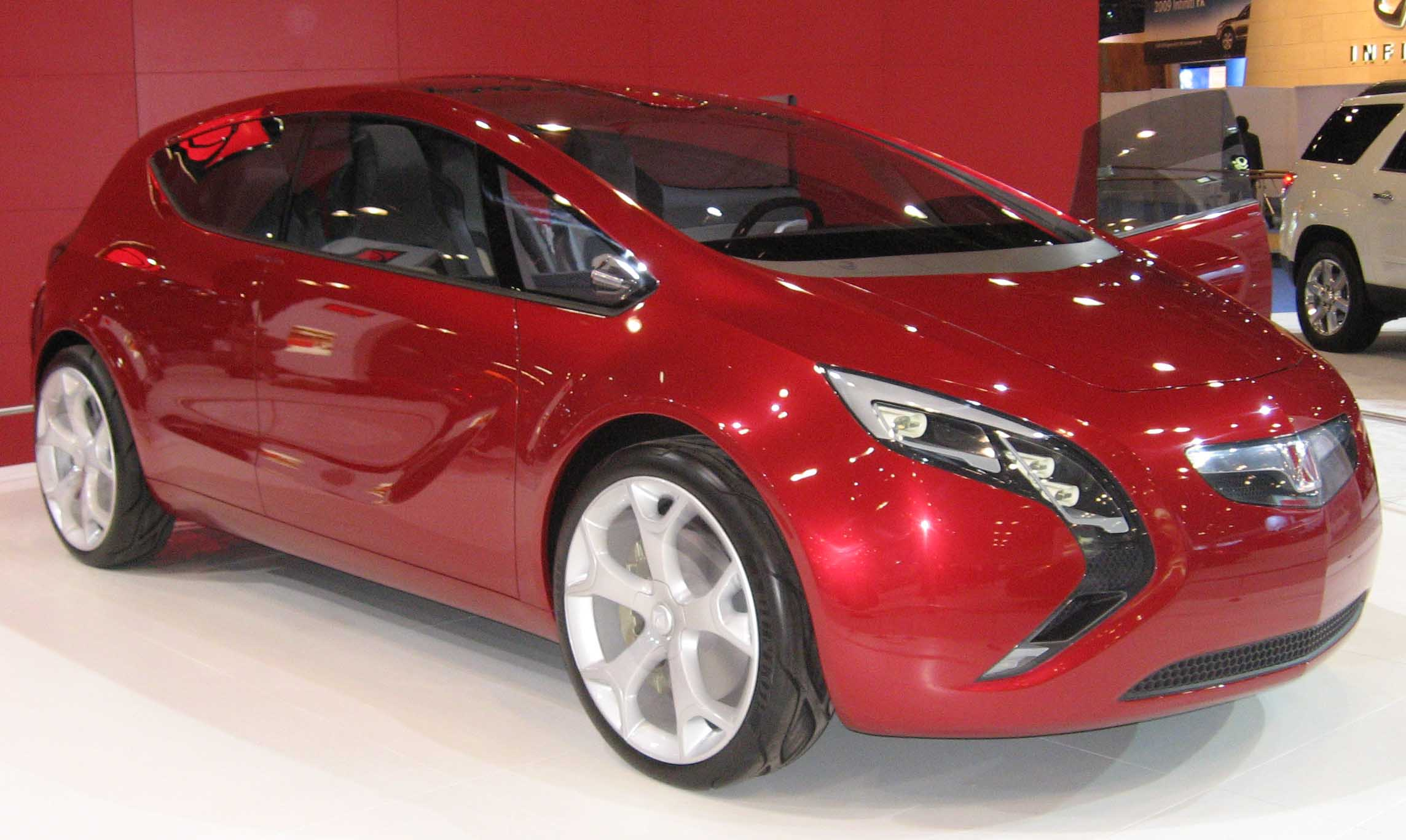 Saturn Flextreme concept photographed at the 2008 New York Auto Show.